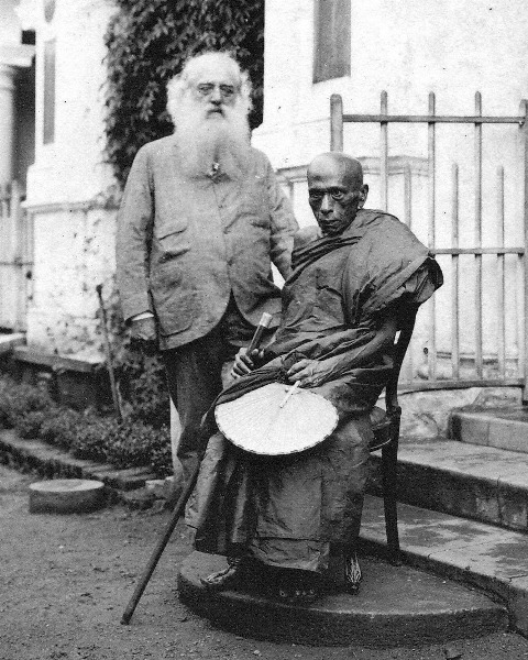 Hikkaduwe Sri Sumangala thero and Colonel Henry Steel Olcott revivalists of Sri Lankan Buddhism in Colombo, 1889.